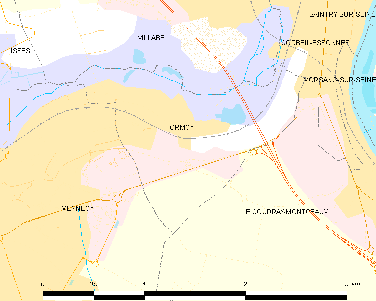 Map of French municipality Ormoy